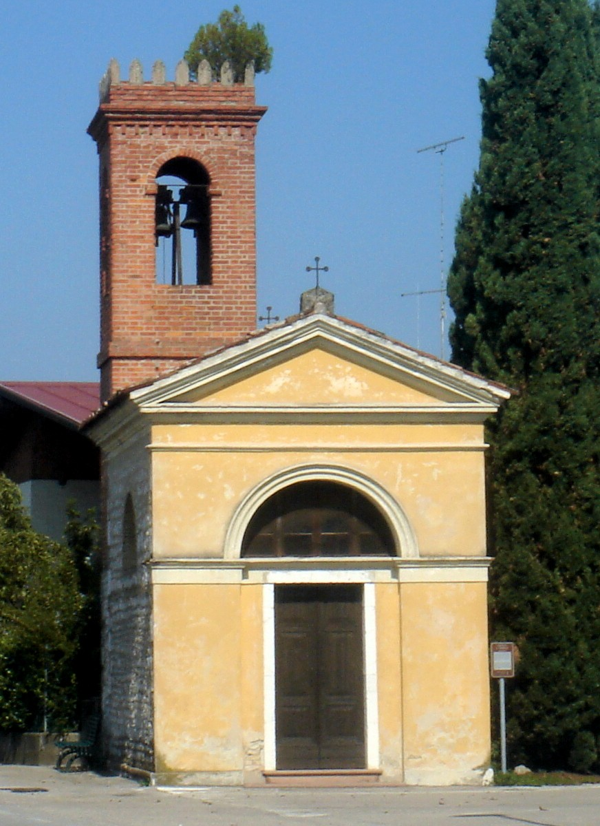 Gaiarine (TV)